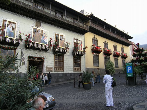 Tenerife, my own picture, Oratava, House with balcony, 30.12.2003, Drozdp 15:47, 16 Jun 2005 (UTC)